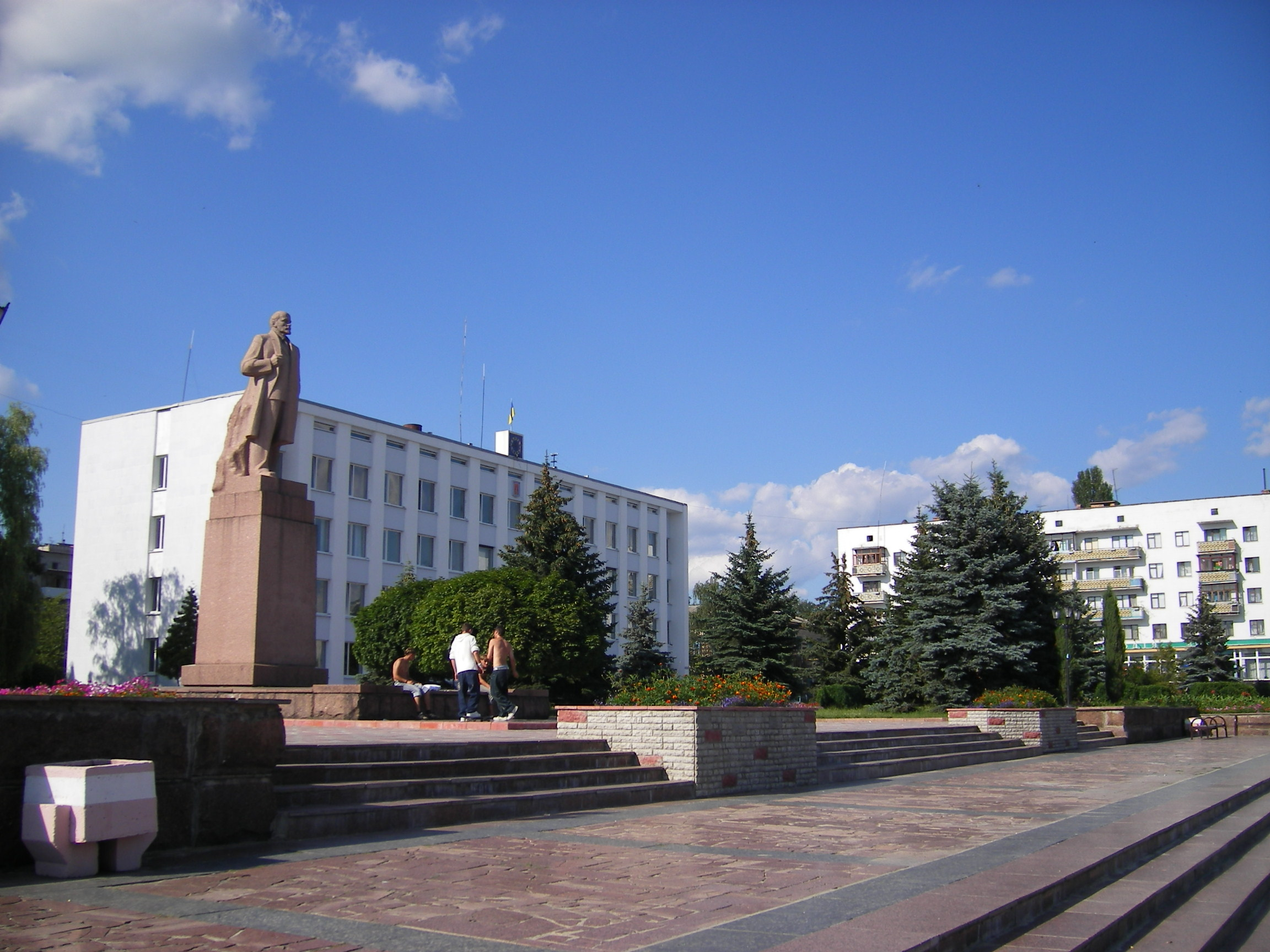 Korosten, Raion Administration Building